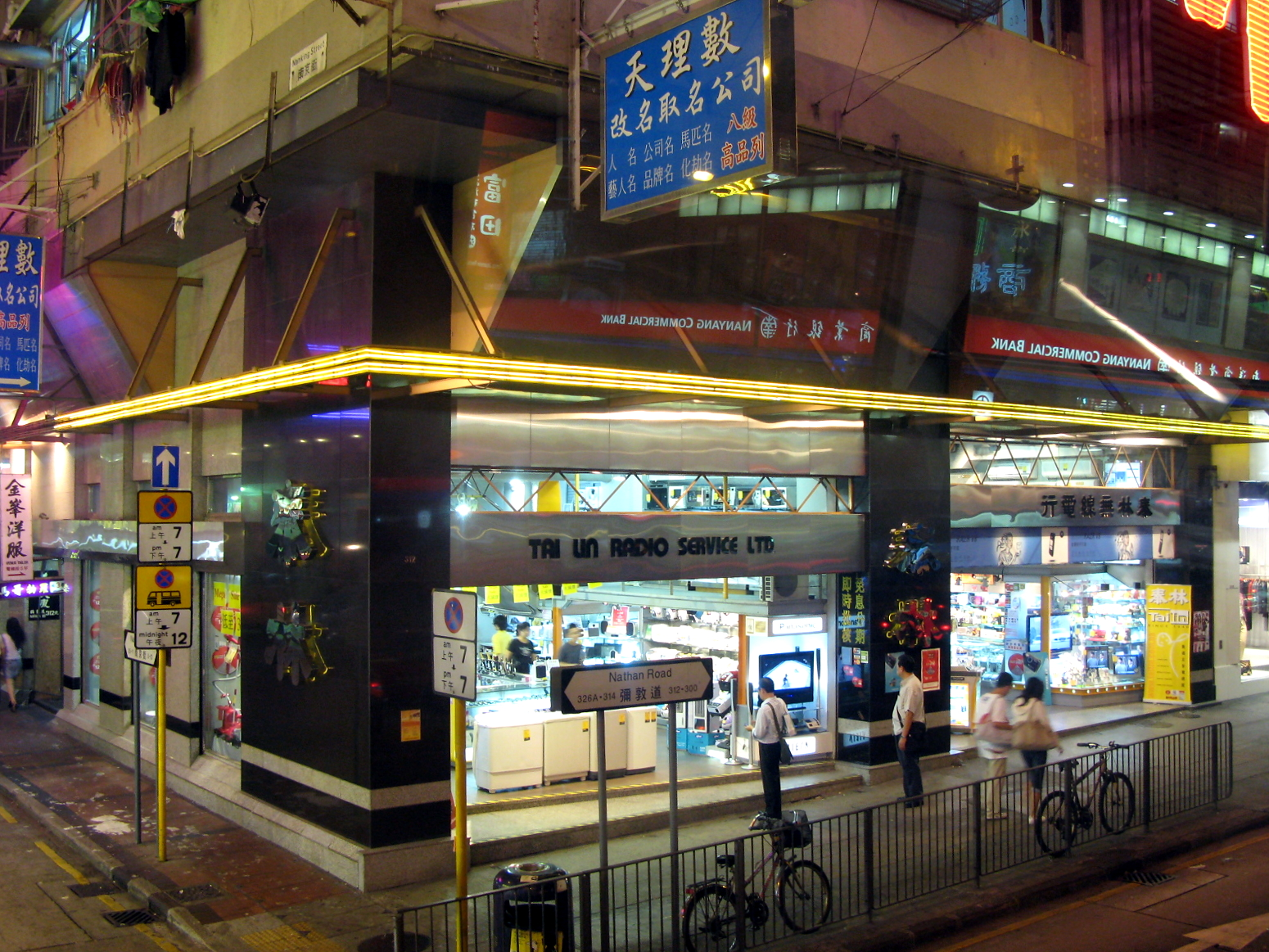 Tailin Nathan Road Store 2007 泰林無線電行於佐敦彌敦道分店